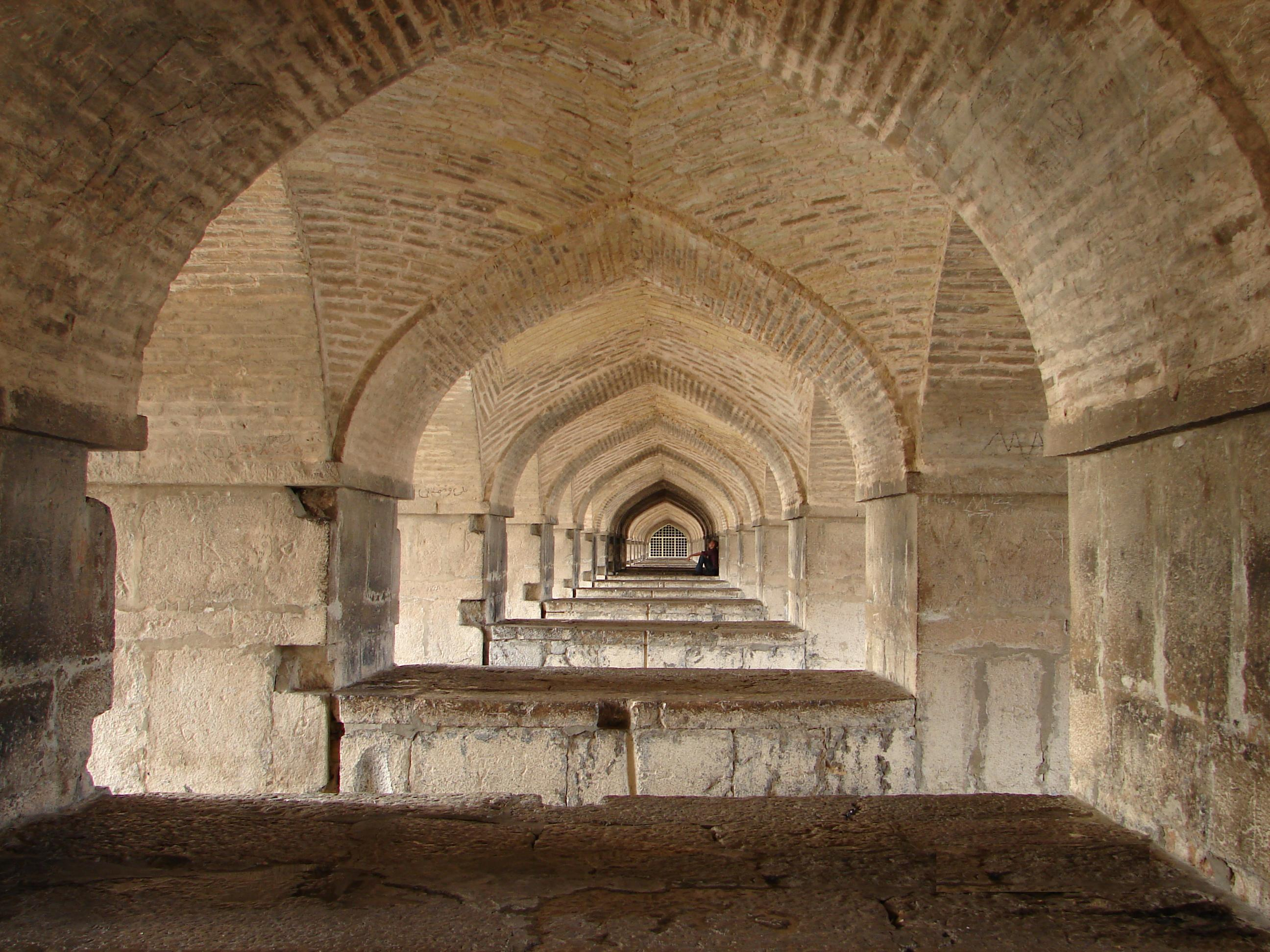 under khajou bridge